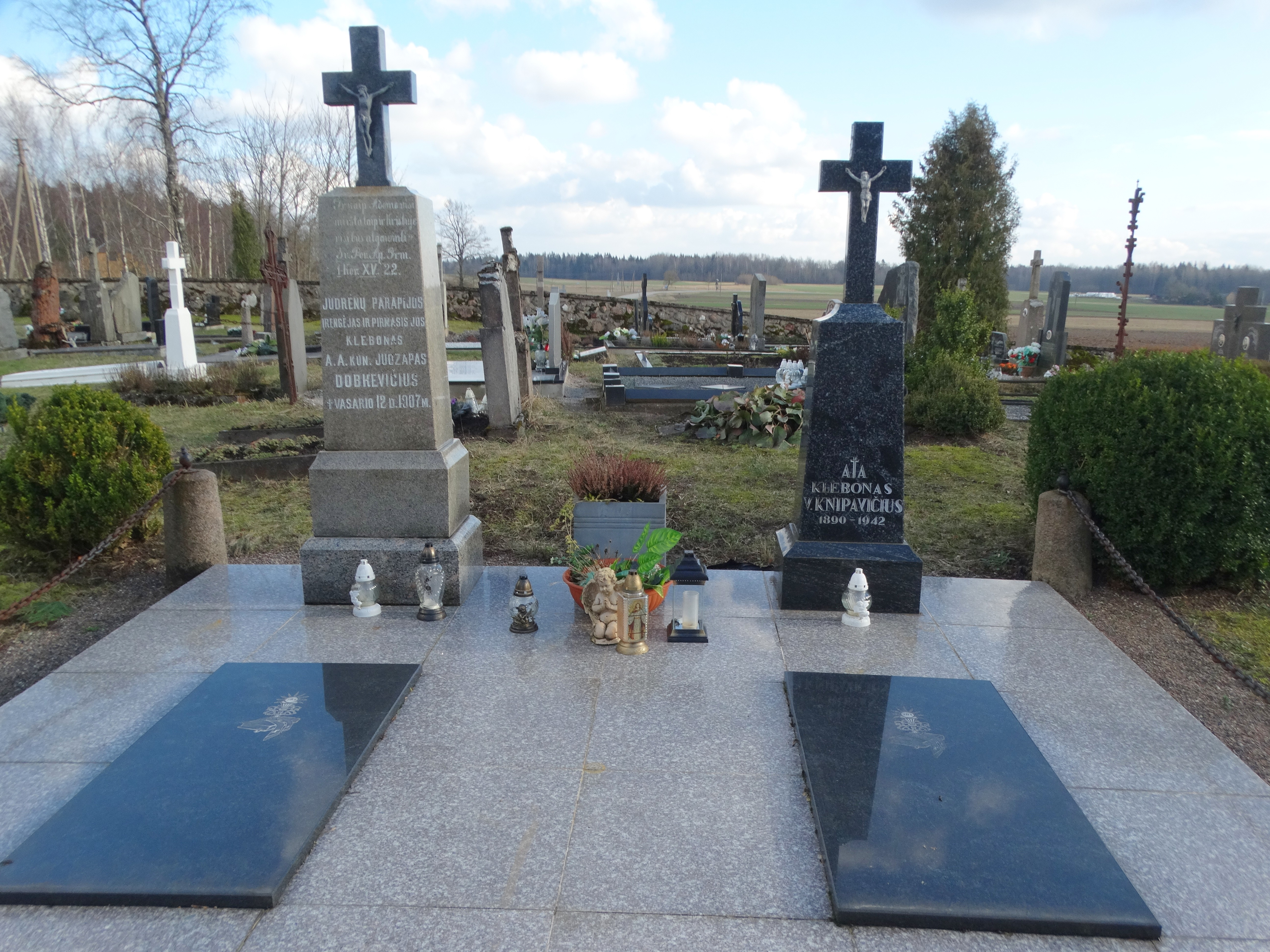 Judrėnai cemetery, graves of priests, Šakėnai, Klaipėda District. Lithuania